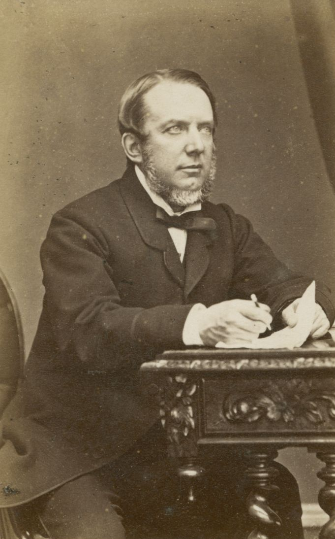 Artist: Window & Grove Date/place: Unknown date/ London Subject: Michael William Balfe Medium: Photographic posetiv Notes: Irish composer. Born in Dublin 15.05. 1808 - dead in Hertfordshire 20.10.1870 Original belongs to the Archives at [#//bergenbibliotek.no/digitale-samlinger” Bergen Public Library]